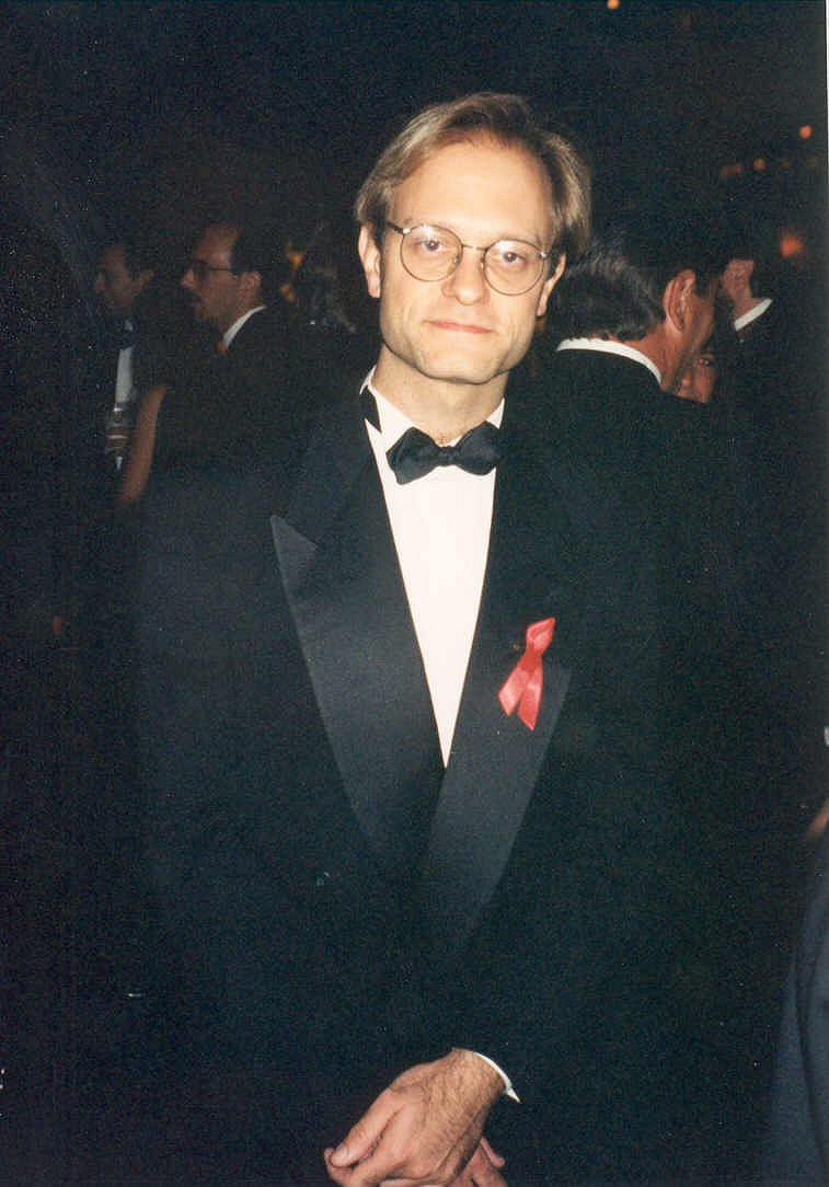 Photo taken at the 47th Emmy Awards, 9/11/94 - Governor's Ball - Permission granted to copy, publish or post but please credit "photo by Alan Light" if you can